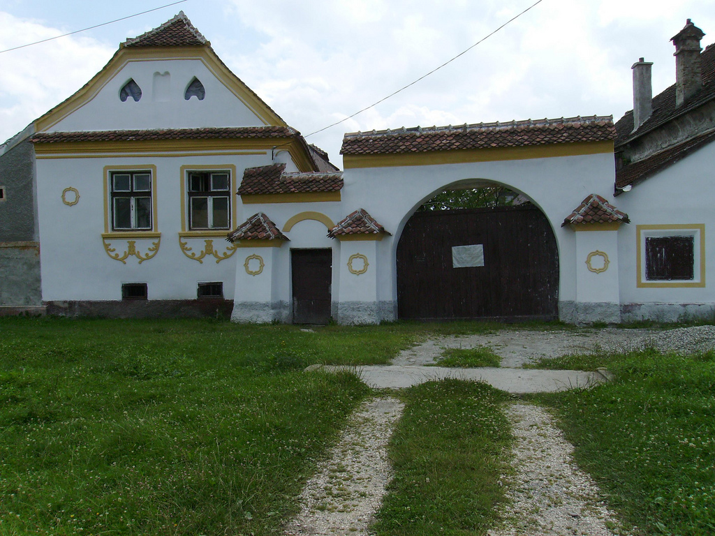 Typical House in Prejmer, Typical medieval house in Prejmer, Transylvania, Romania Location: Transylvania